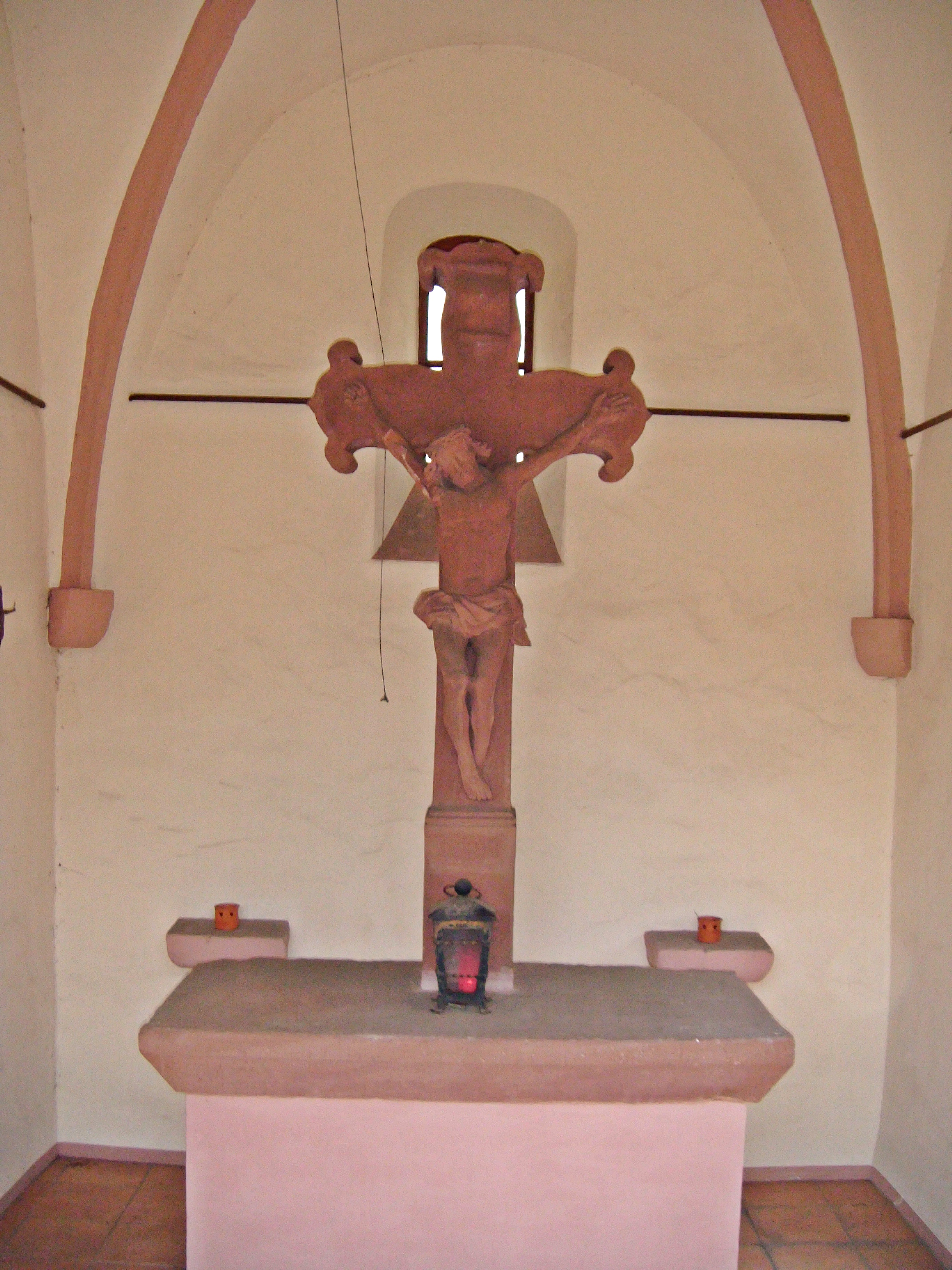 Neuleiningen, Friedhof, Heiligenhäuschen, innen